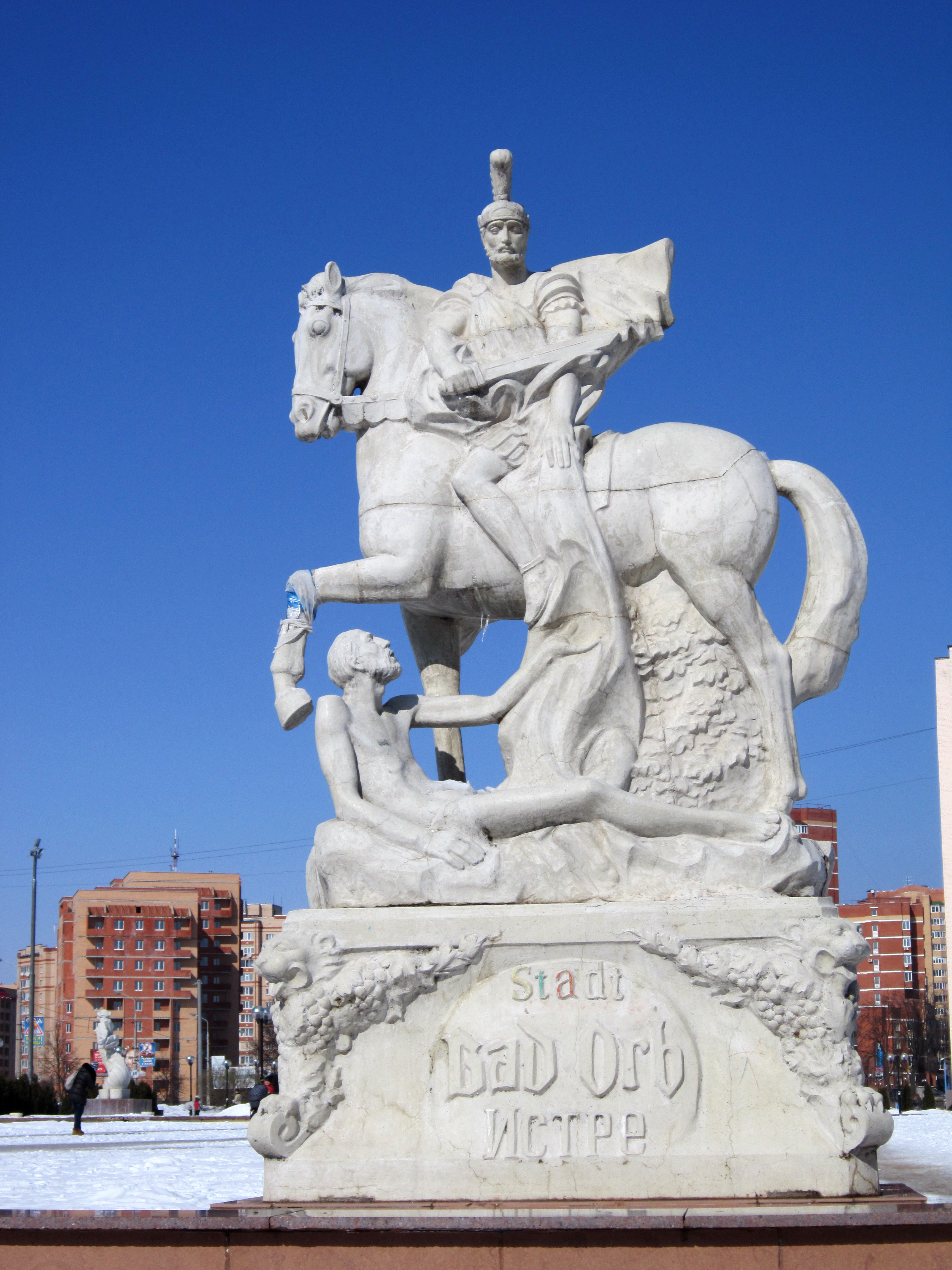 Istra, Moscow Oblast, Russia